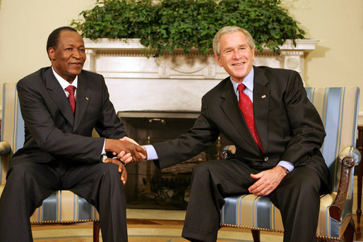 President George W. Bush shakes hands with Burkina Faso President Blaise Compaore, during a meeting Wednesday, July 16, 2008, in the Oval Office of the White House.